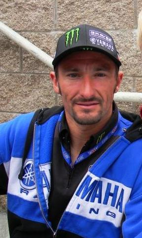 Photograph of motorcycle racer Josh Hayes, 2011